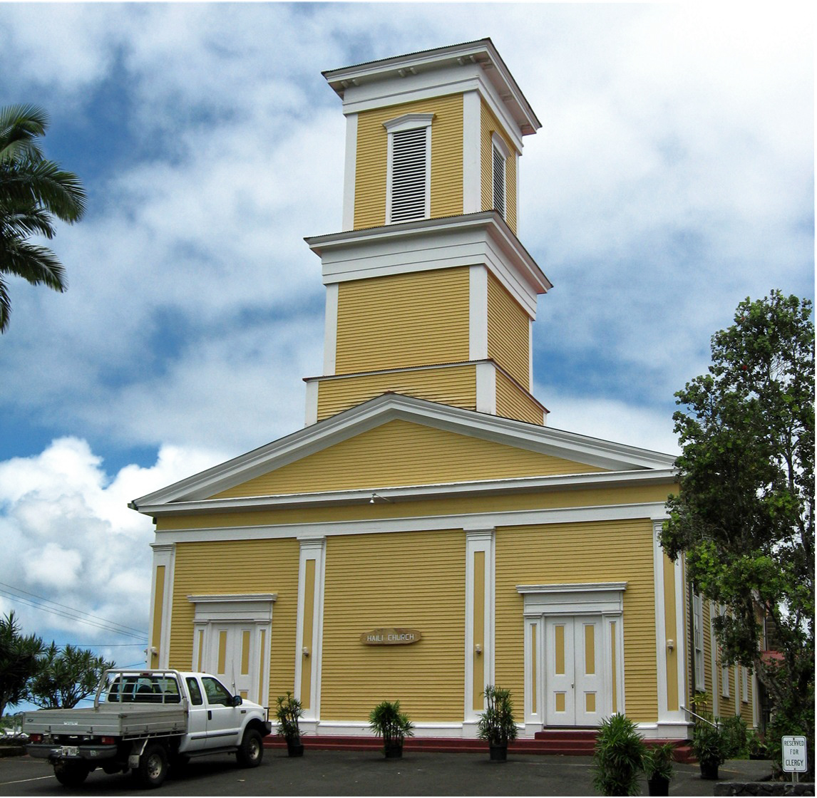 Now known as Ha'ili Church in Hilo, Hawaii, this was the first Christian mission in Eastern Hawaii island, established as the Waiakea Mission by Station in 1824. This building built under Rev. Titus Coan in 1854.